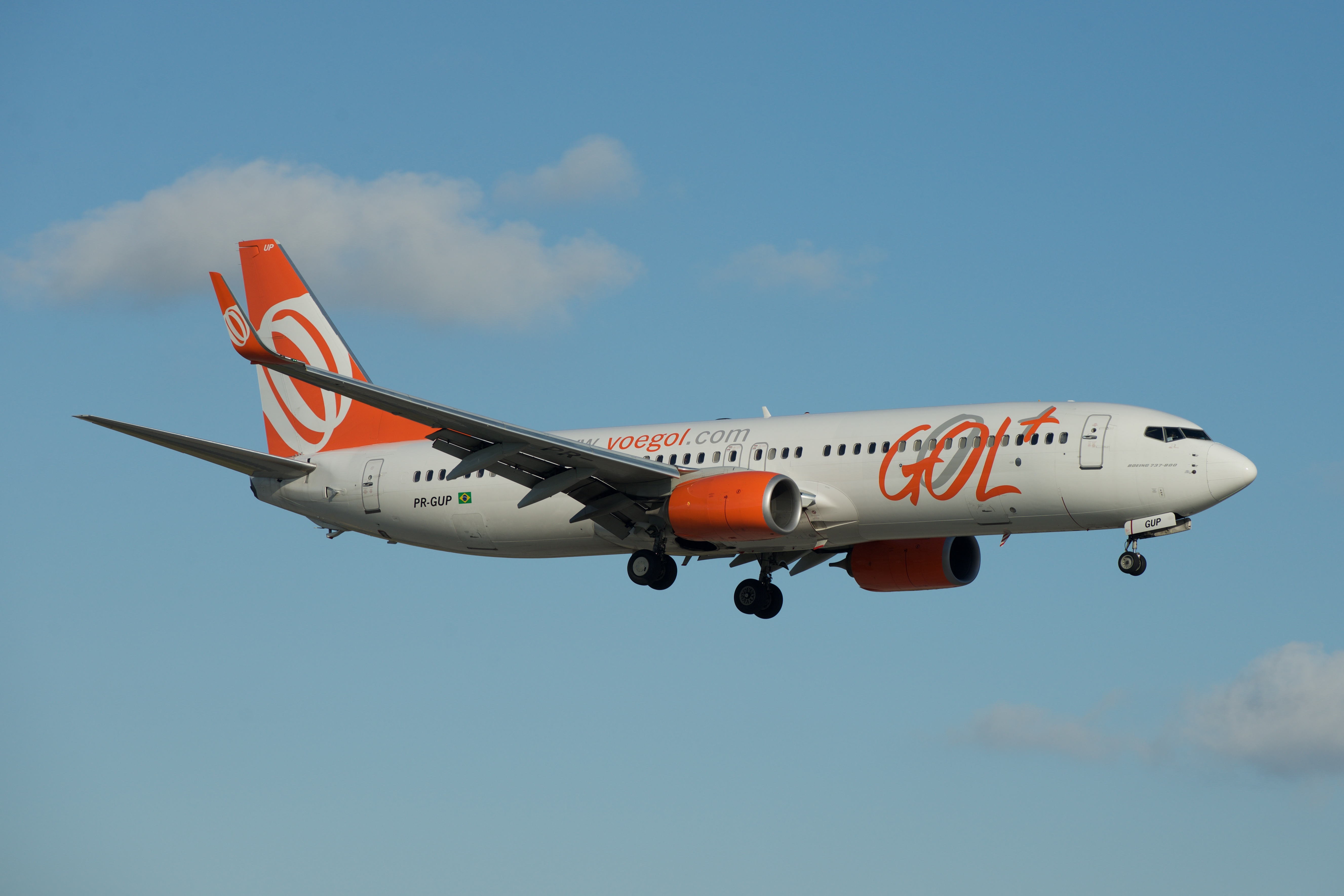 Short Final, MIA